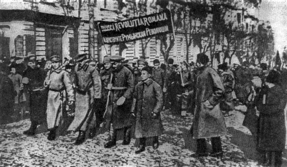 Pro-Soviet Romanian volunteer regiment marching in Odessa, southern Russia, during January 1918. Banner reads "Long live the Romania Revolution" in Romania and Russian.